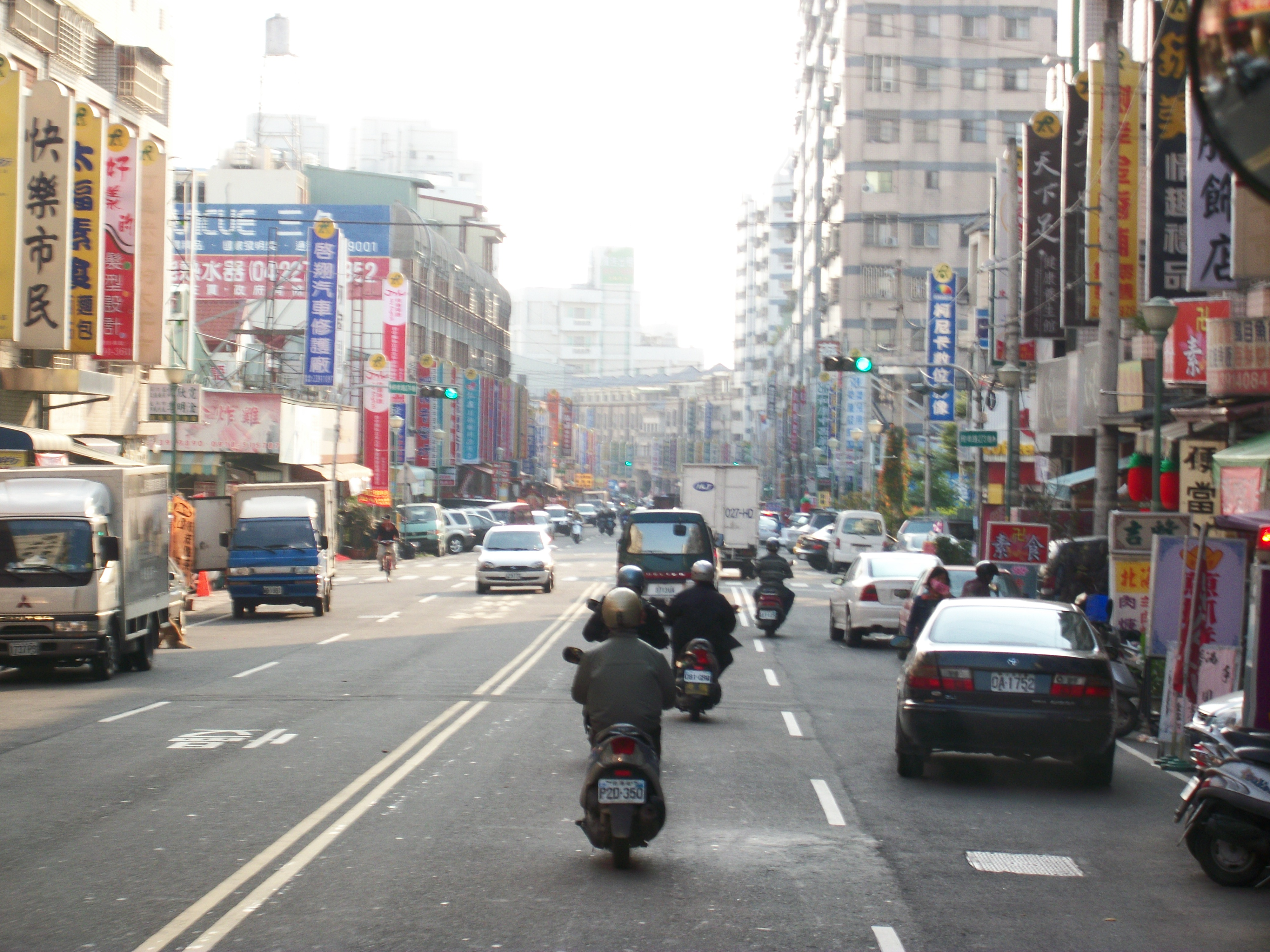 Looking northward alongside the Shuxiao Road in Taiping City,Taichung County.